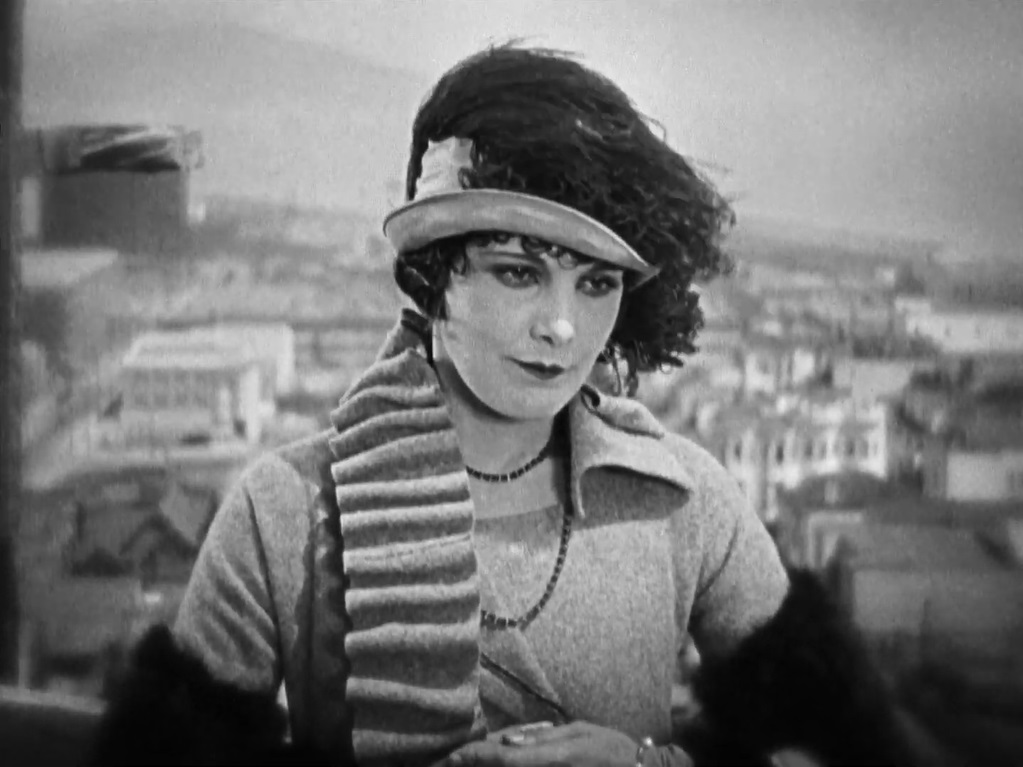 Screenshot from the silent film The Ten Commandments (1923).